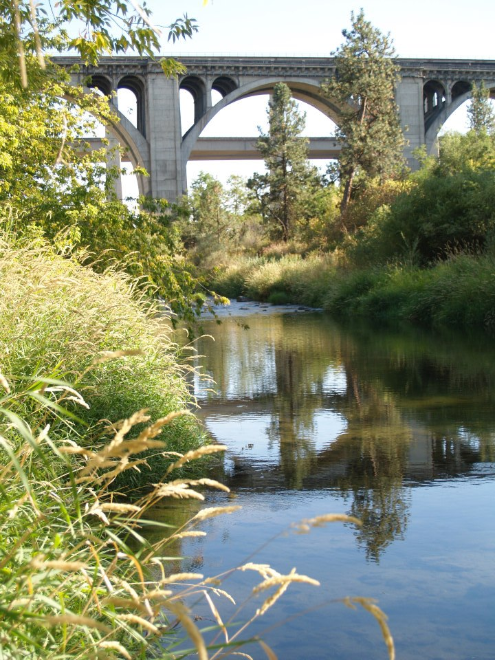 The Sunset Highway, Interstate 90 and railroad bridges over Latah Creek, as seen from just downstream. High Bridge Park lies on the opposite side of the water as where the photo was taken. September 2012.